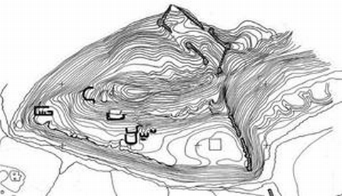 Detail of edited topographic plan of Kuh-e Safaiyeh and Rashkan Castle in Ray, Tehran. Original plan was made by V. Bernard and R. Rante (see Encyclopædia Iranica)